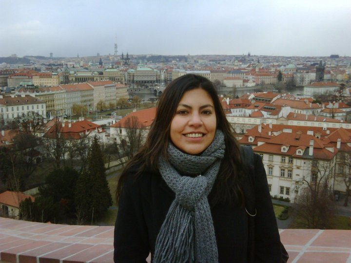 Violeta Ayala in Prague